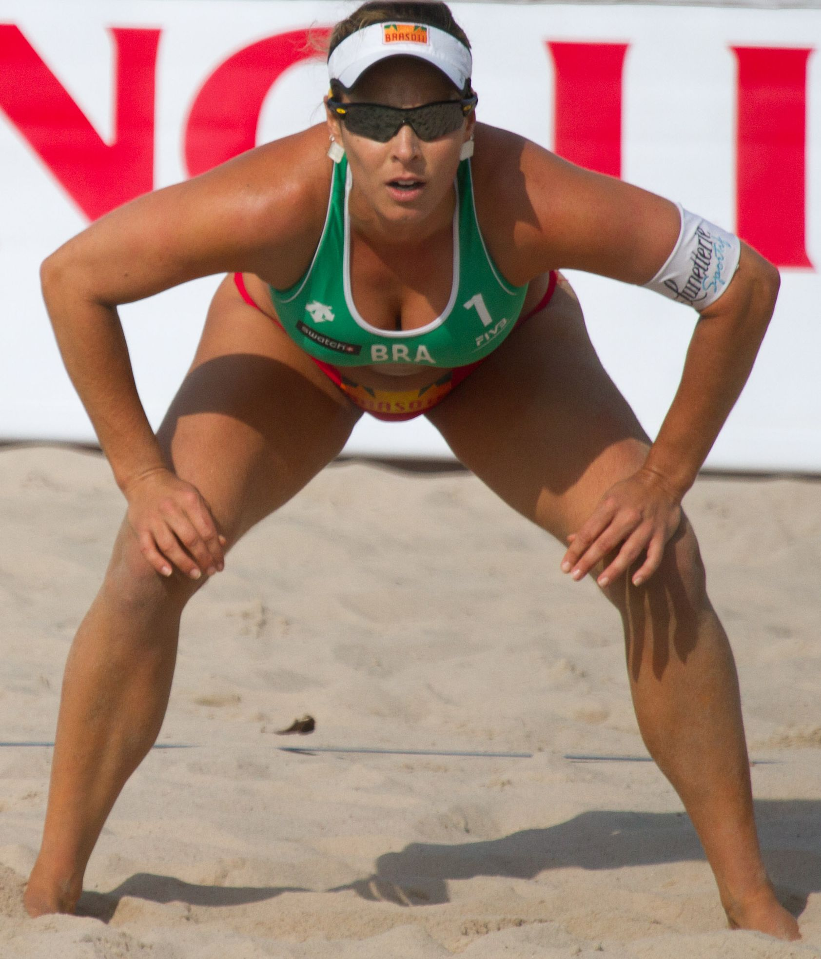 the Brazilian beach volleyball player Ágatha Bednarczuk at the Paf Open 2012 (cropped version of